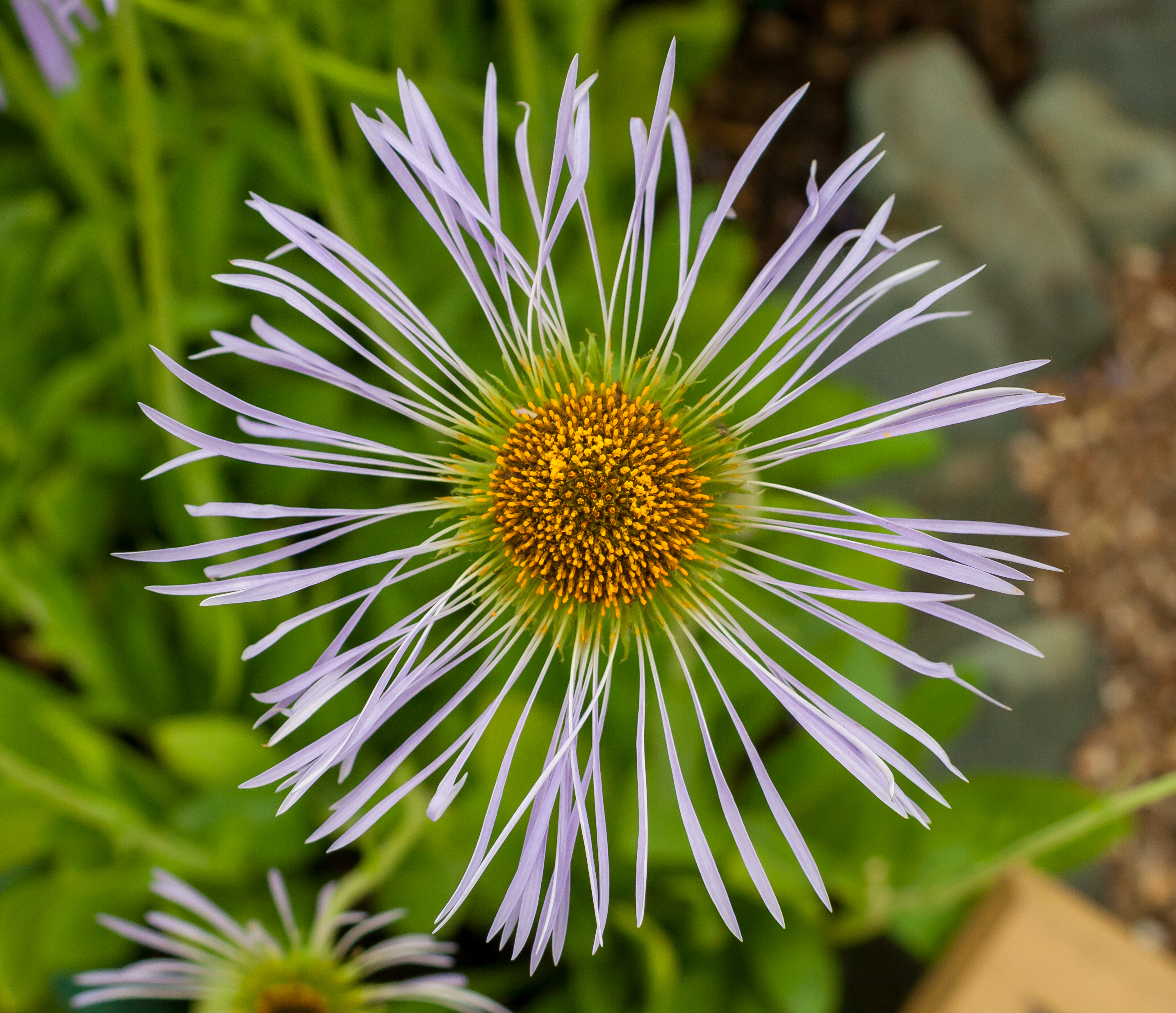 Aster diplostephioides. At Tatton Park Flower Show 2010.